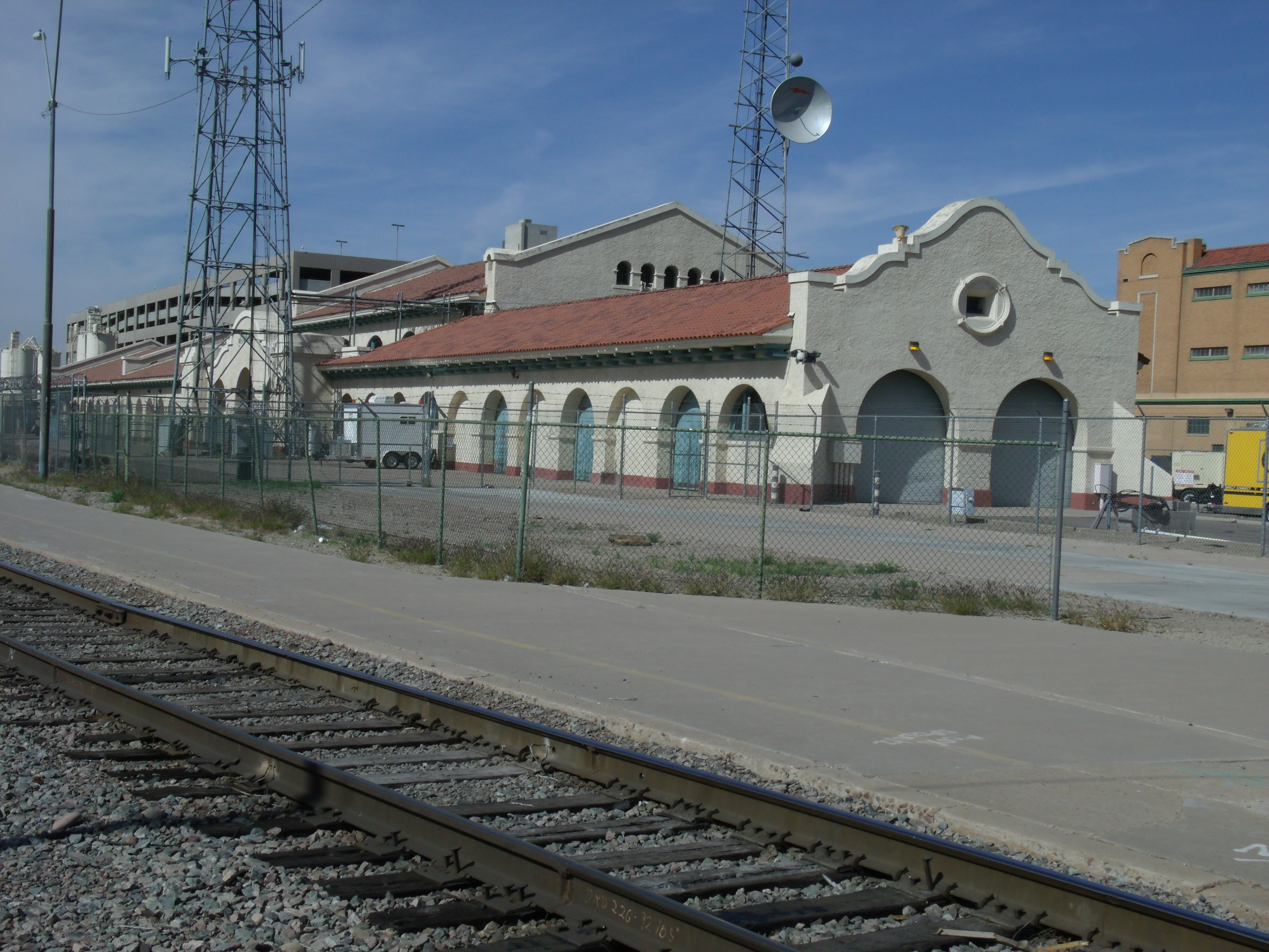 Different view of the historic Phoenix Union Station built in 1923 and located at 401 W. Harrison St. Phoenix, Az. Listed in the National